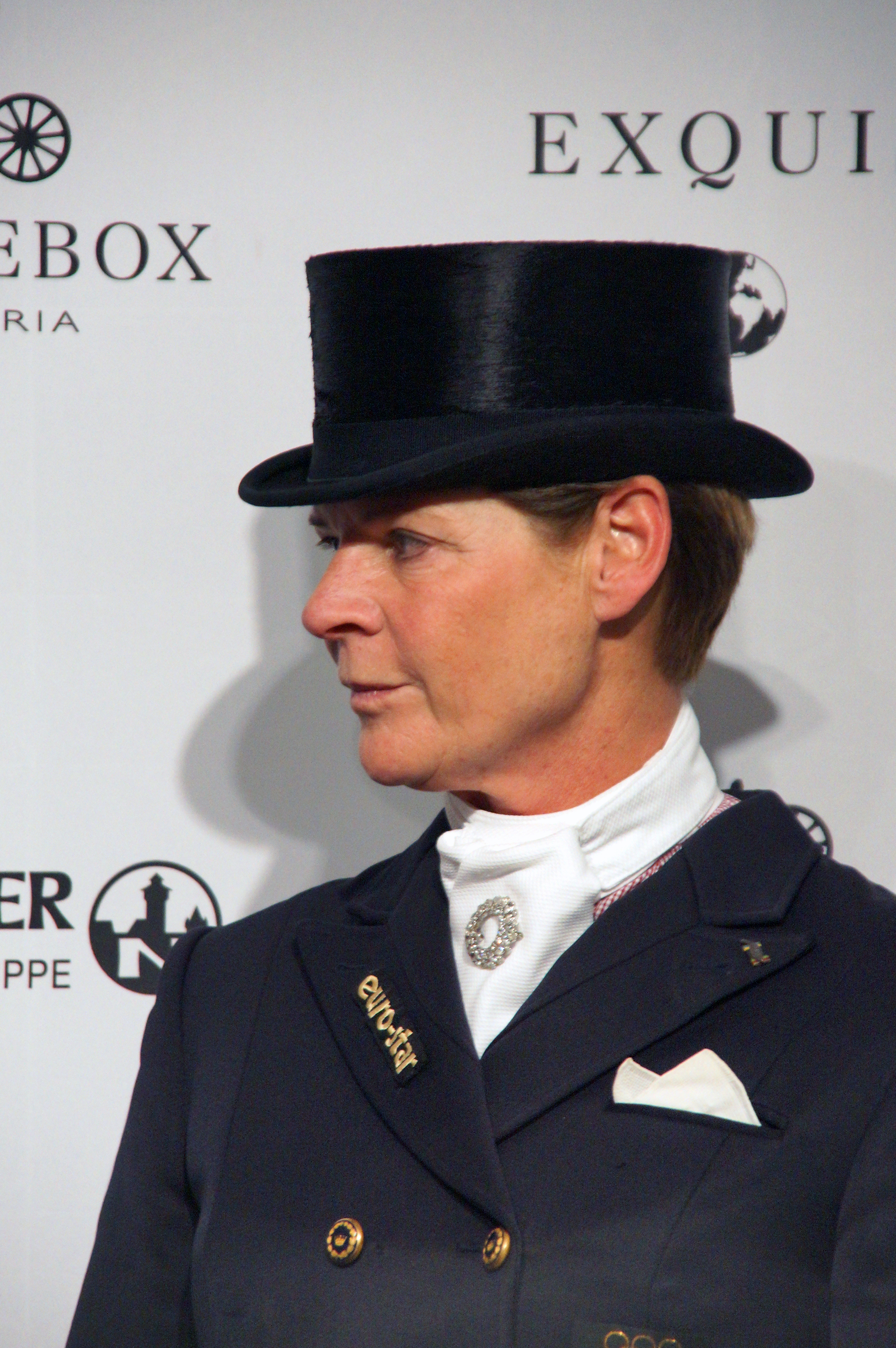 CDI 5* World Dressage Masters at 2013 Vlaanderens Kerstjumping - Jumping Mechelen: Ulla Salzgeber at Press Conference